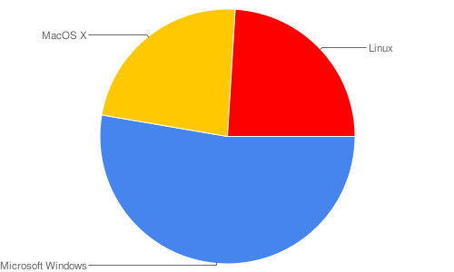 Pie graph showing the sales breakdown of the Humble Bundle by platform amounts donated. Data take from [1]